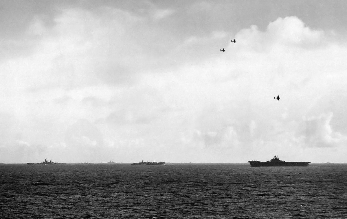 Combat air patrol flies overhead of a task group of the Fast Carrier Task Force. An Essex class fleet carrier, an Independence class light fleet carrier, and two Iowa class battleships are visible in the frame.